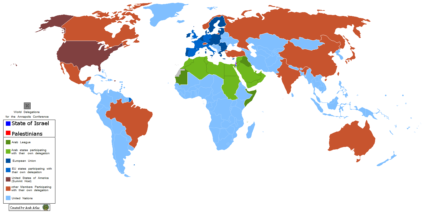 Map showing the geographical origins of delegations participating in the Annapolis Conference, a Middle East peace conference held on November 27, 2007, at the United States Naval Academy in Annapolis, Maryland, USA.